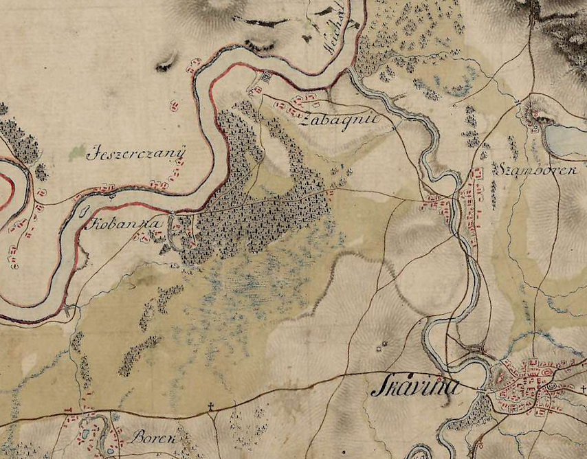 Kopanka and Zabagnie near Skawina on the so called Miege's Map